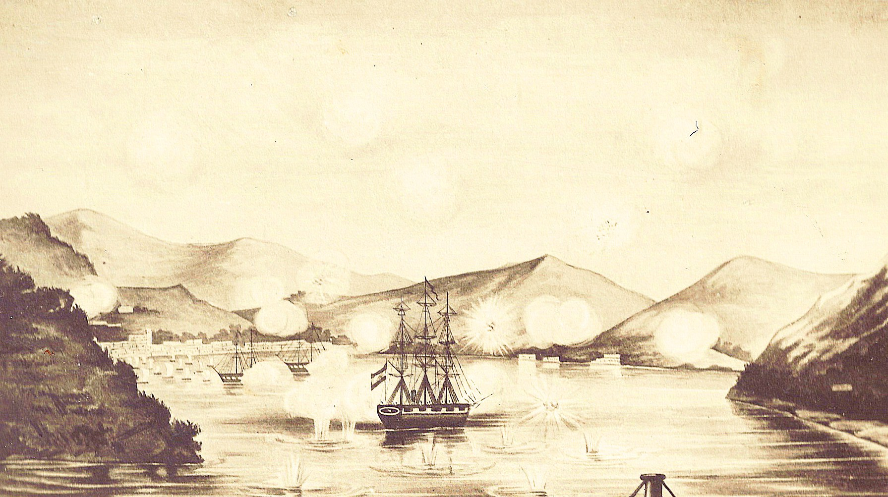 De Medusa